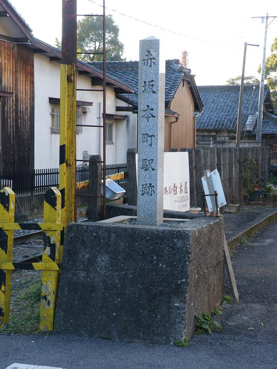 Akasaka Hommachi Station(abandoned railway station), Gifu, Japan.